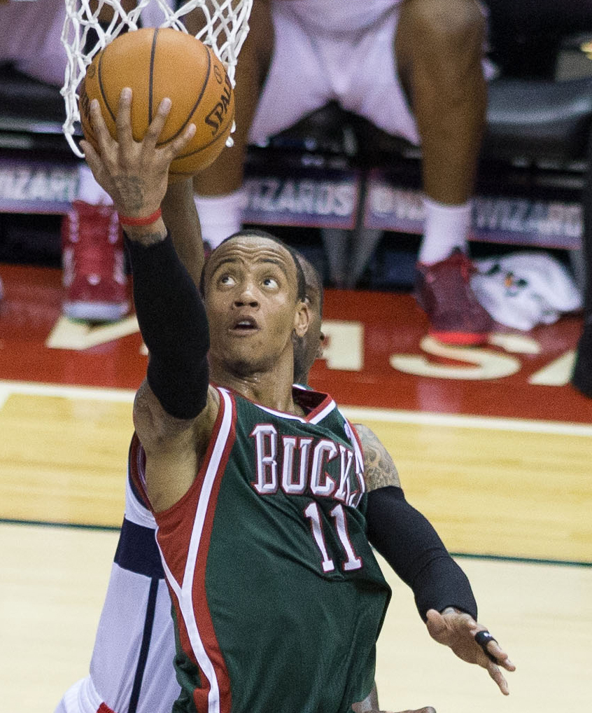 Monta Ellis